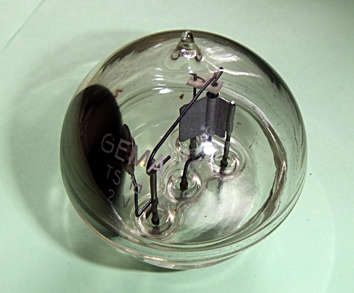 German oscillator triode for the decimeter band TS1a (WW II)